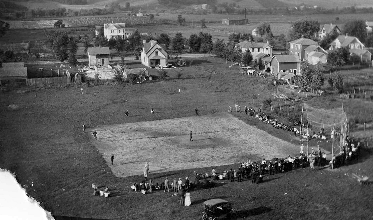 Blair vs Arcadia “hot game”; photo taken from the bell tower of the old Blair School.